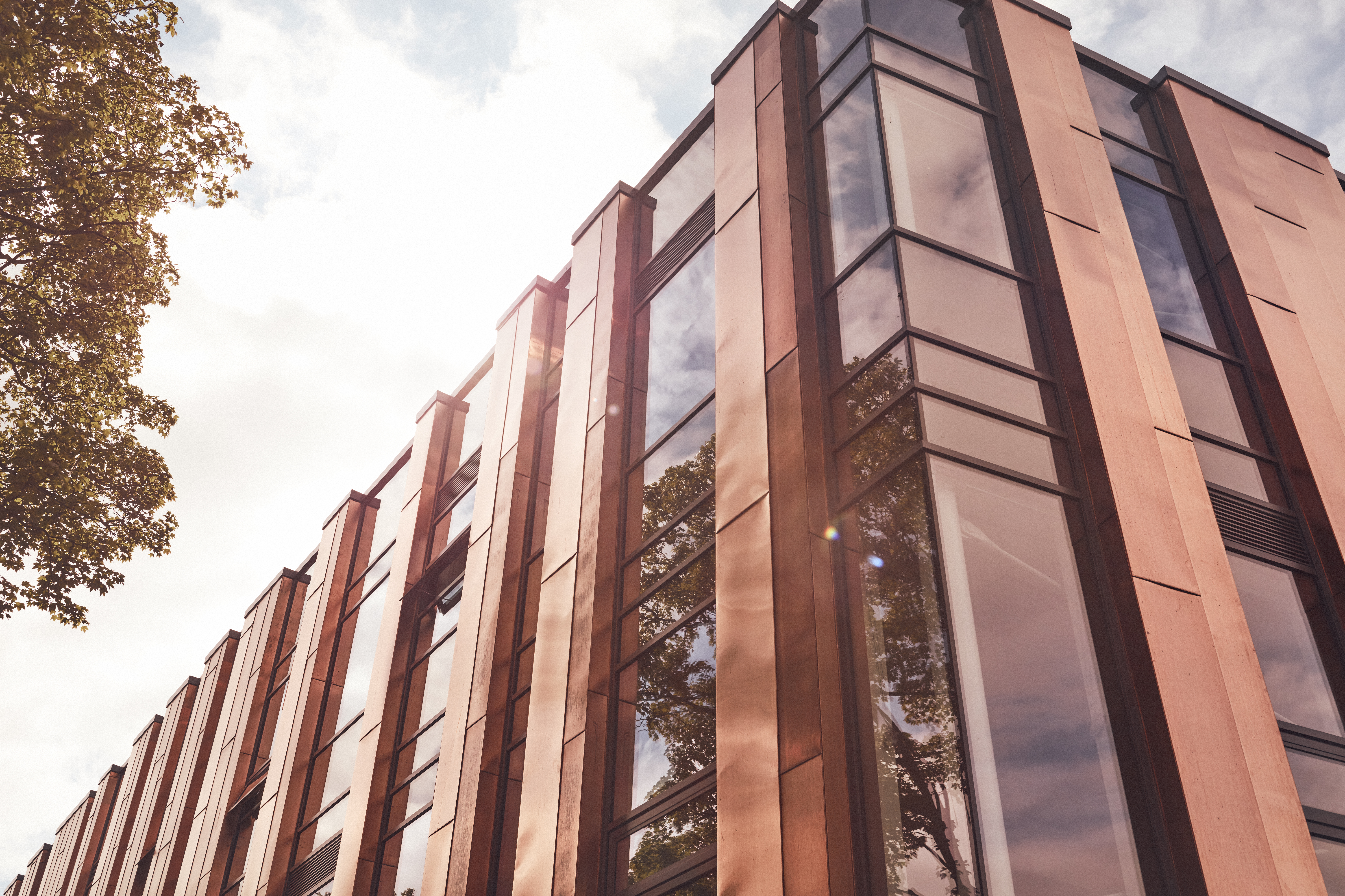 The purpose-built 3625 square metre three storey block was completed in 2016